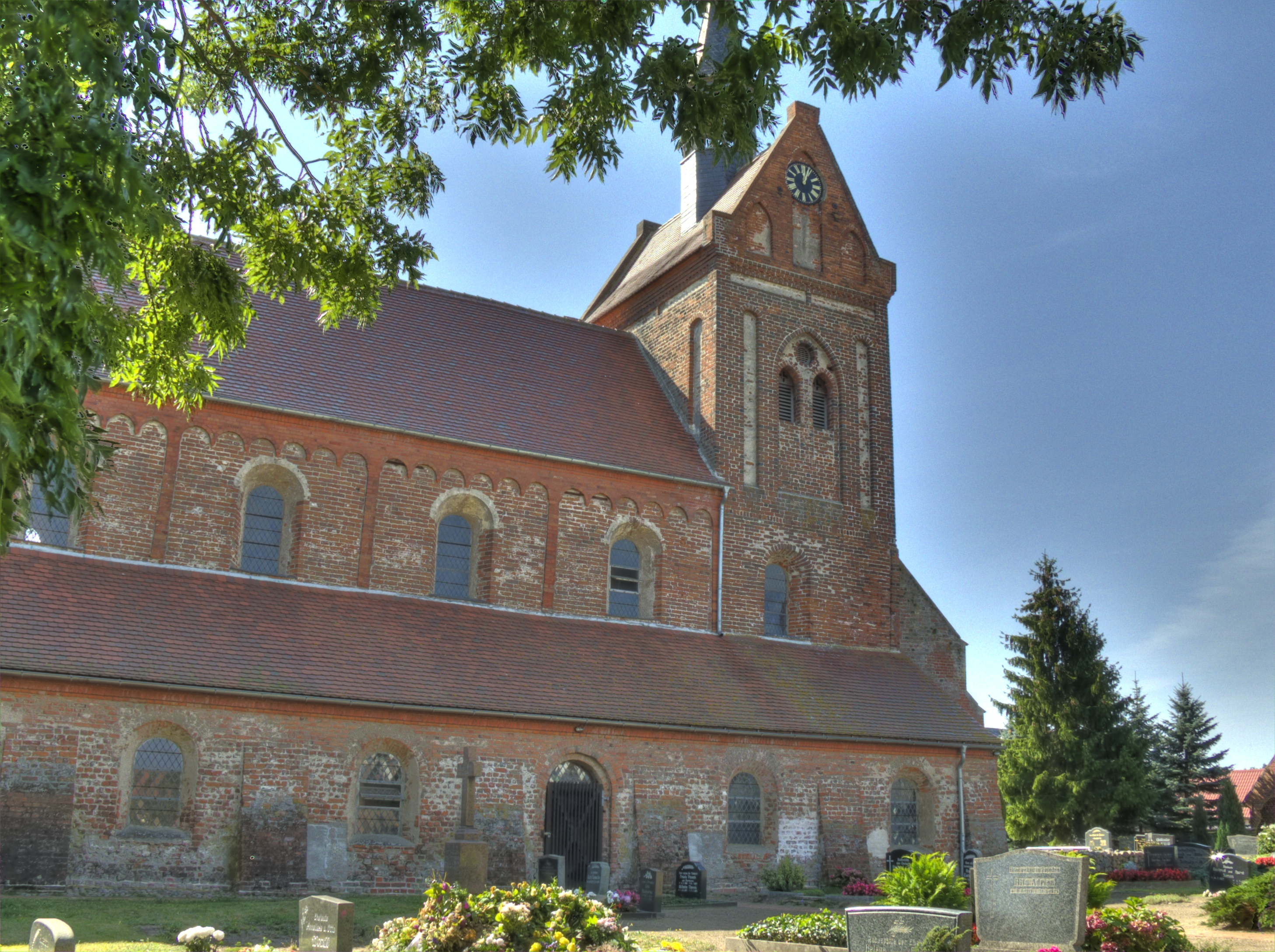 Church St Nicolaus in Beuster. Complete build from baked bricks. The church was finished to build in 1172.